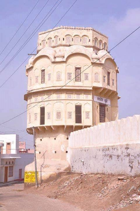 Located in Rawatsar